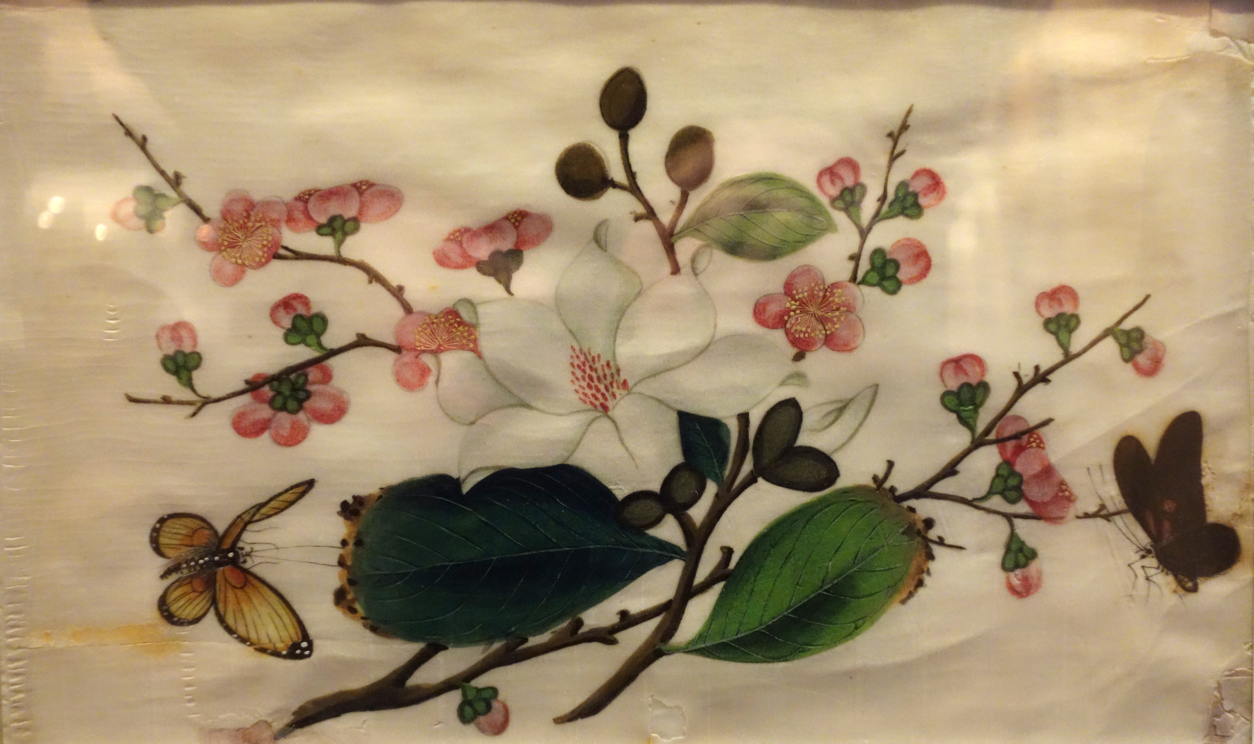 Exhibit in the Robert C. Williams Paper Museum, Atlanta, Georgia, USA. This work is old enough so that it is in the public domain.